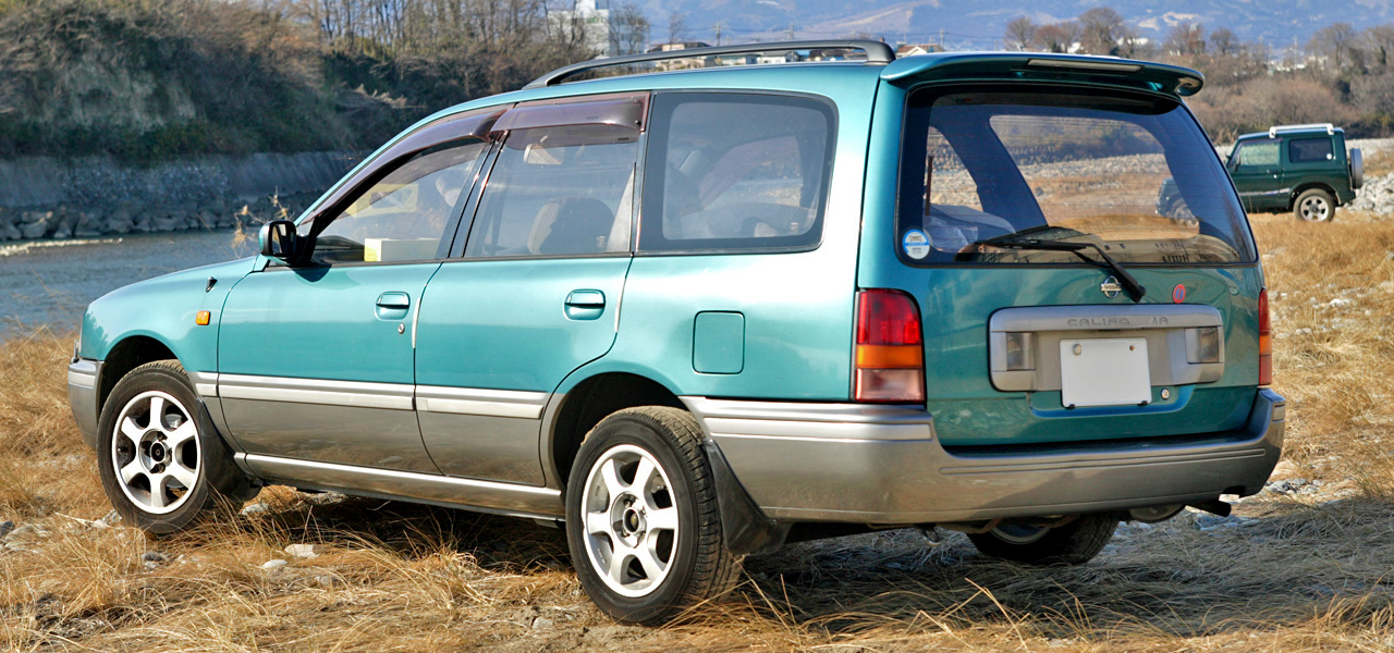 Nissan Sunny California ( WY10 )